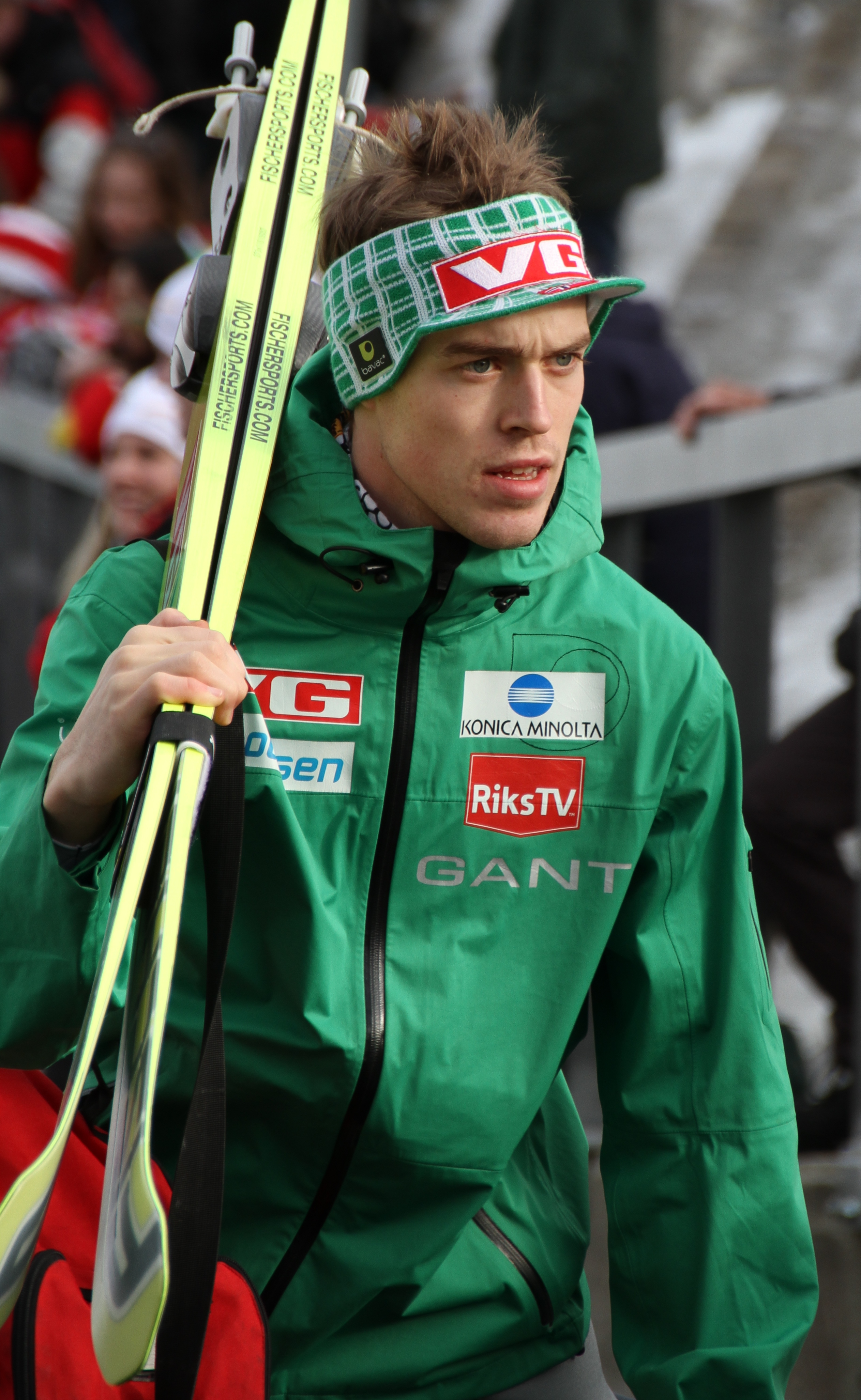 Holmenkollen World Cup March 11, 2012. Oslo, Norway.